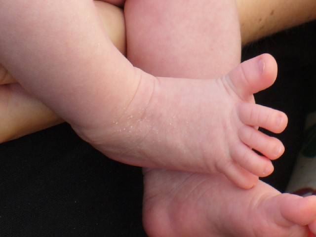 Spontaneous Babinski Sign in a 4 weeks old unhealthy child.